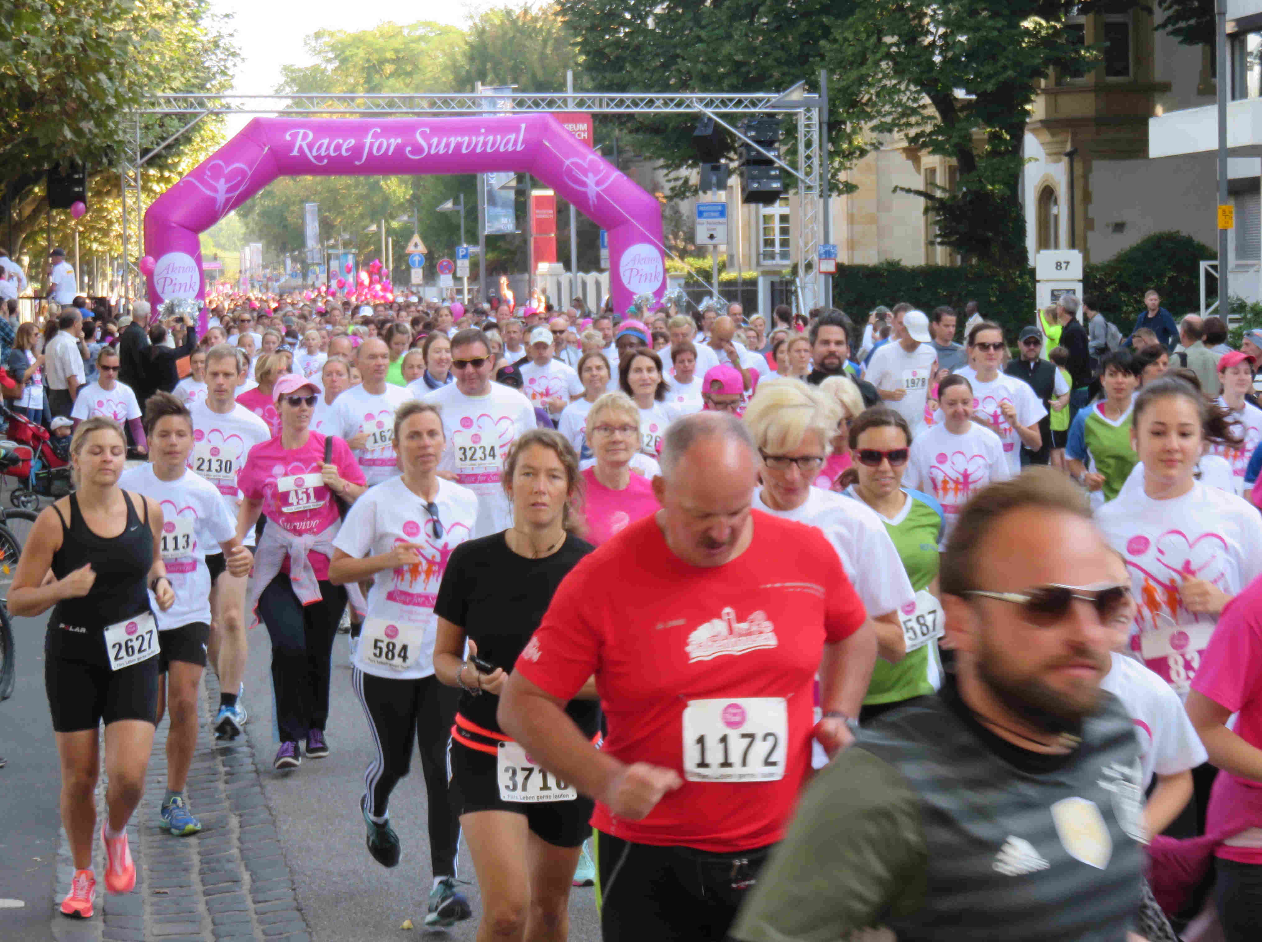 Former "Komen Race for the cure", since 2016: "Race for Survival". Start. Frankfurt am Main, Museumsufer